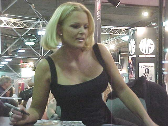 At CES January 6-9, 2000